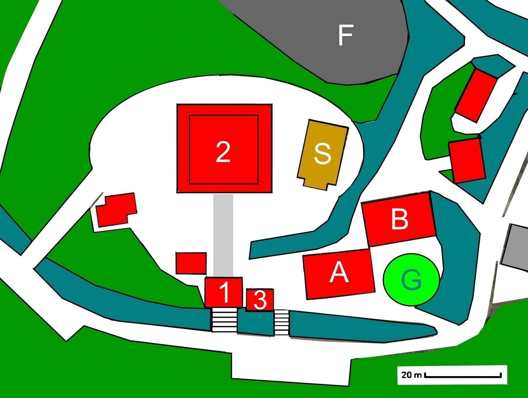 Layout of Kôzô-ji temple at Kisarazu, Japan